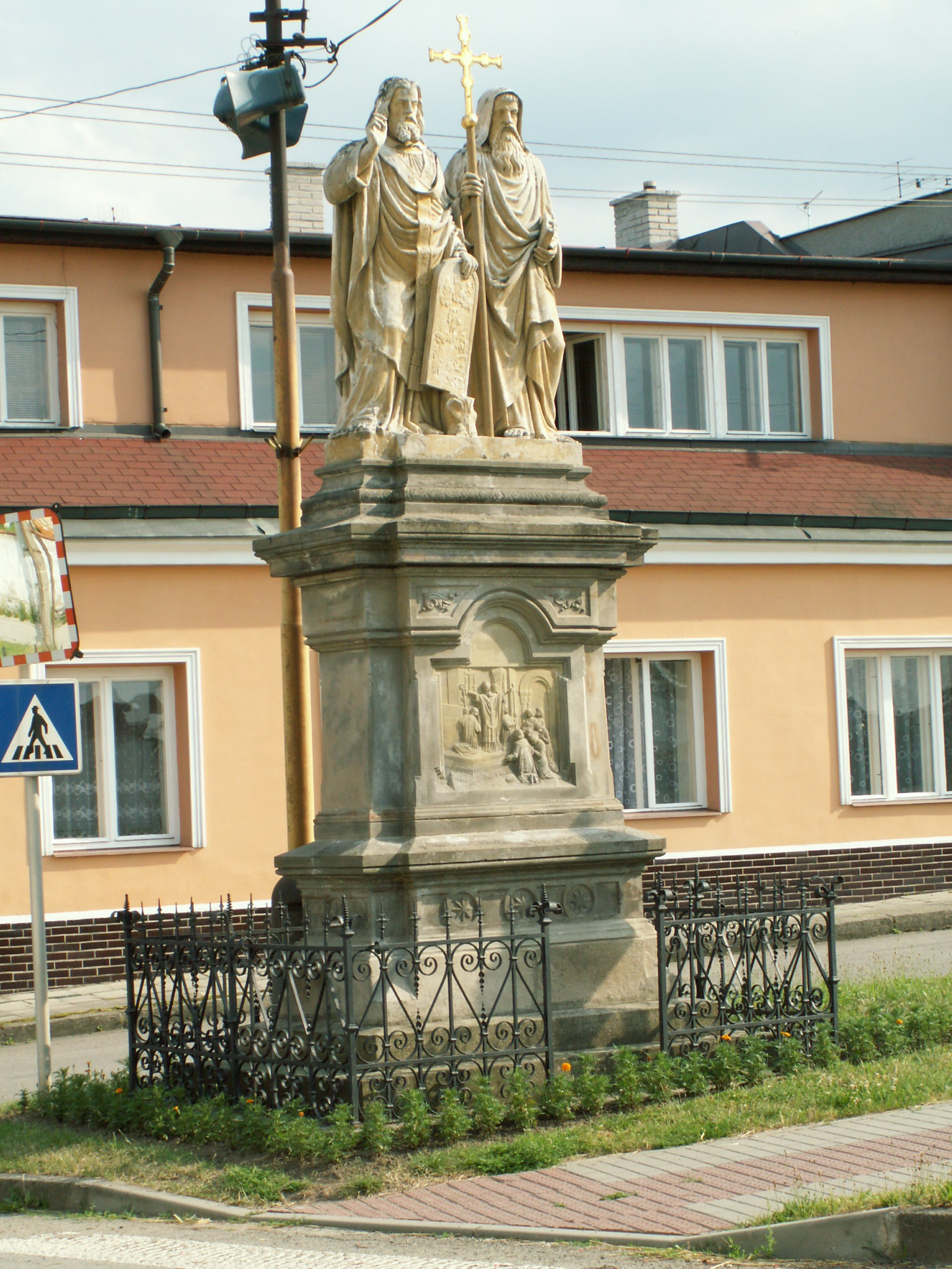 Dřevohostice (Czech Republic, Přerov District) - statue of SS. Cyril and Methodius